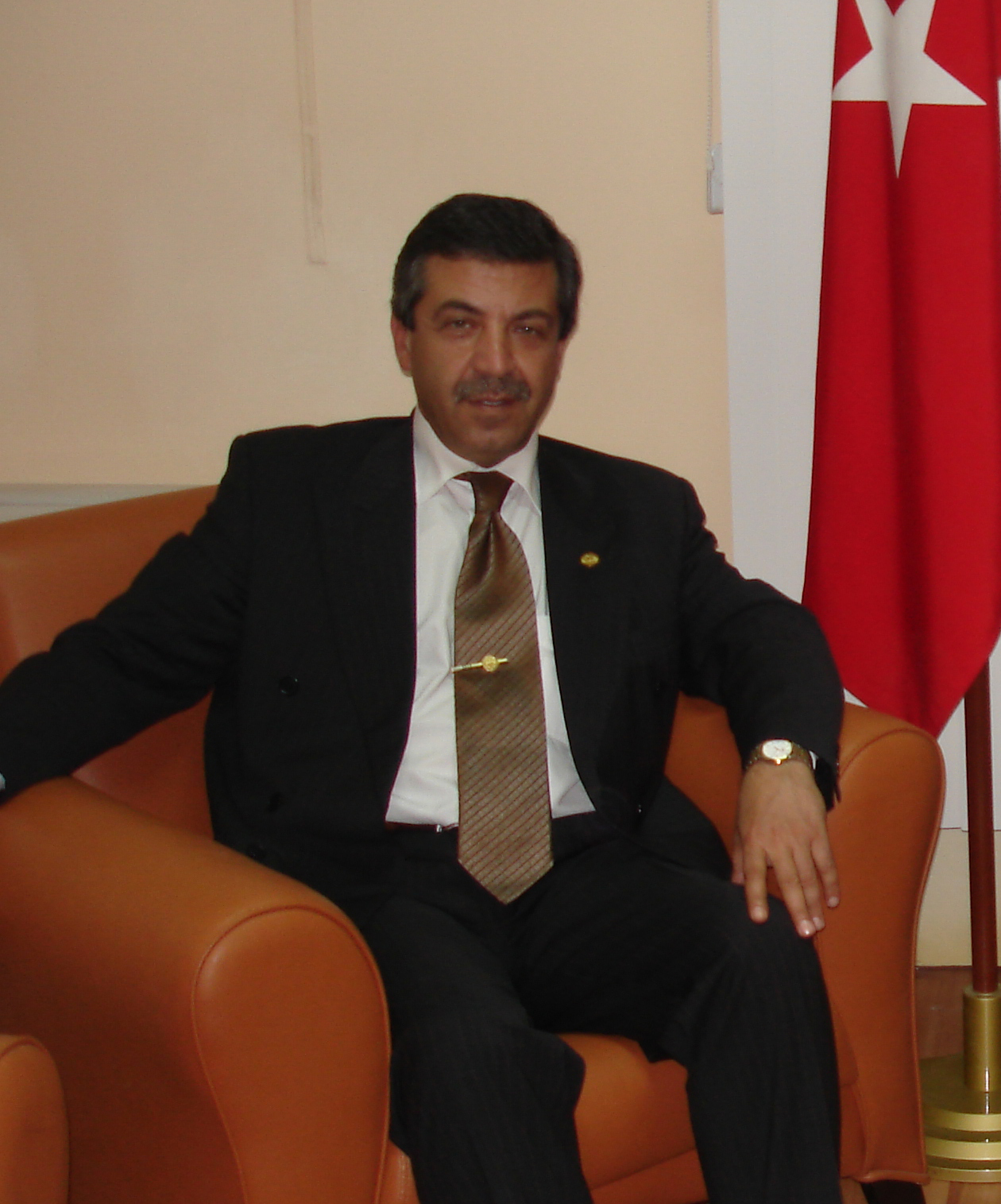 Tahsin Ertuğruloğlu, former leader of UBP in TRNC, and a current indepent member of parliament.